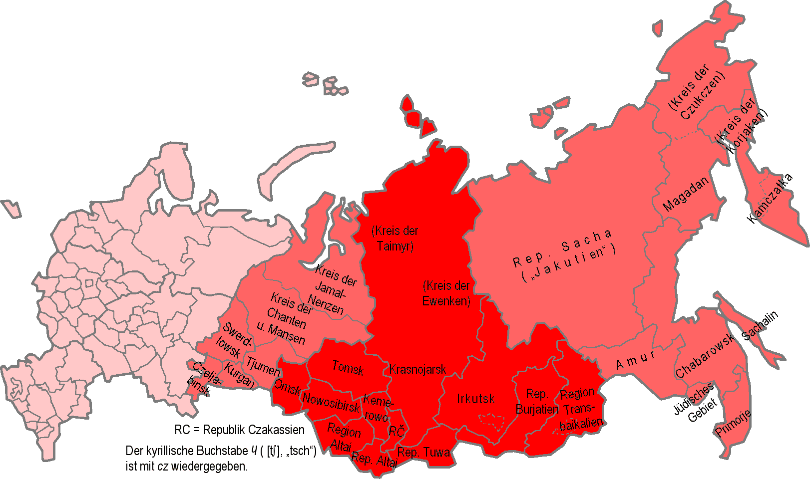 Correct map of Siberia. Dark red - Federal region "Siberia", light red - popular scientific "Siberia".